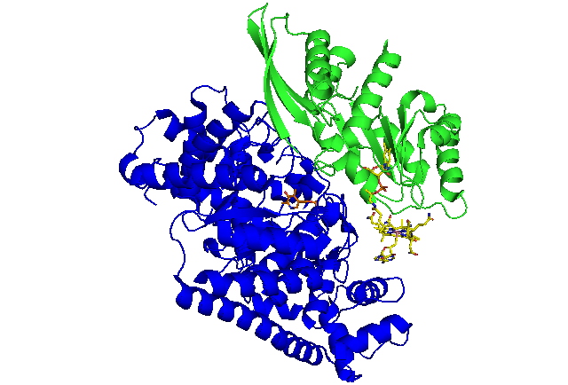 two units of 5,6-LAM